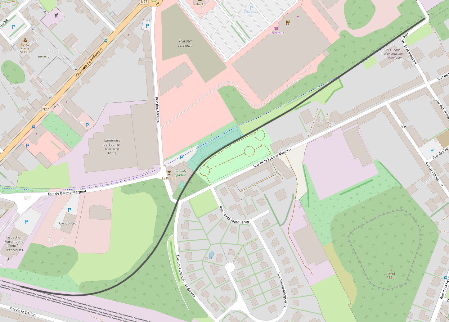 Belgian Railway Line 240, Haine-Saint-Pierre - Haine-Saint-Pierre Verreries This map may be incomplete, and may contain errors. Don't rely solely on it for navigation.